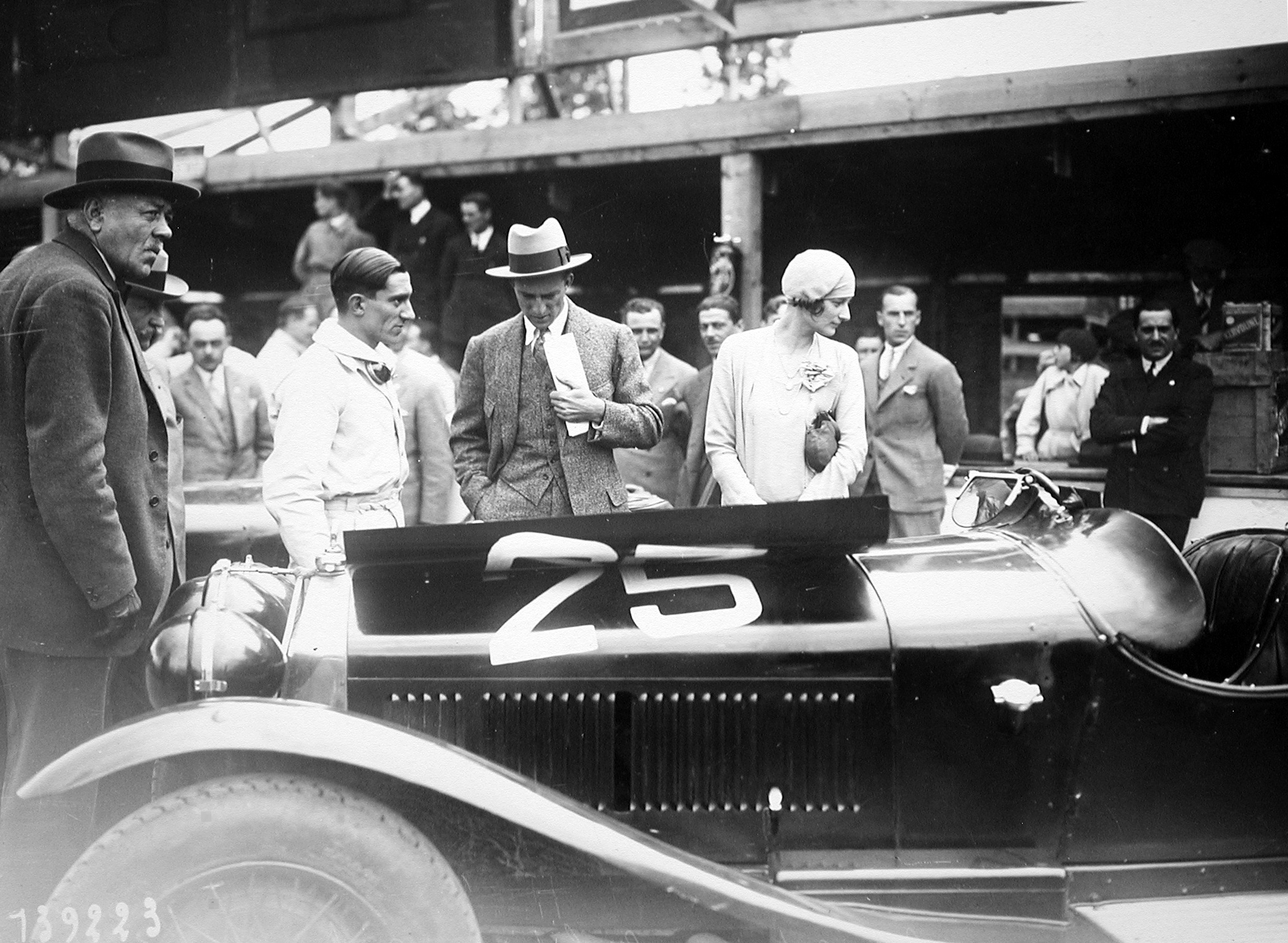 Prince Leopold and Princess Astrid of Belgium visiting Alfa Romeo in Milan, Italy, being hosted by Prospero Gianferrari.